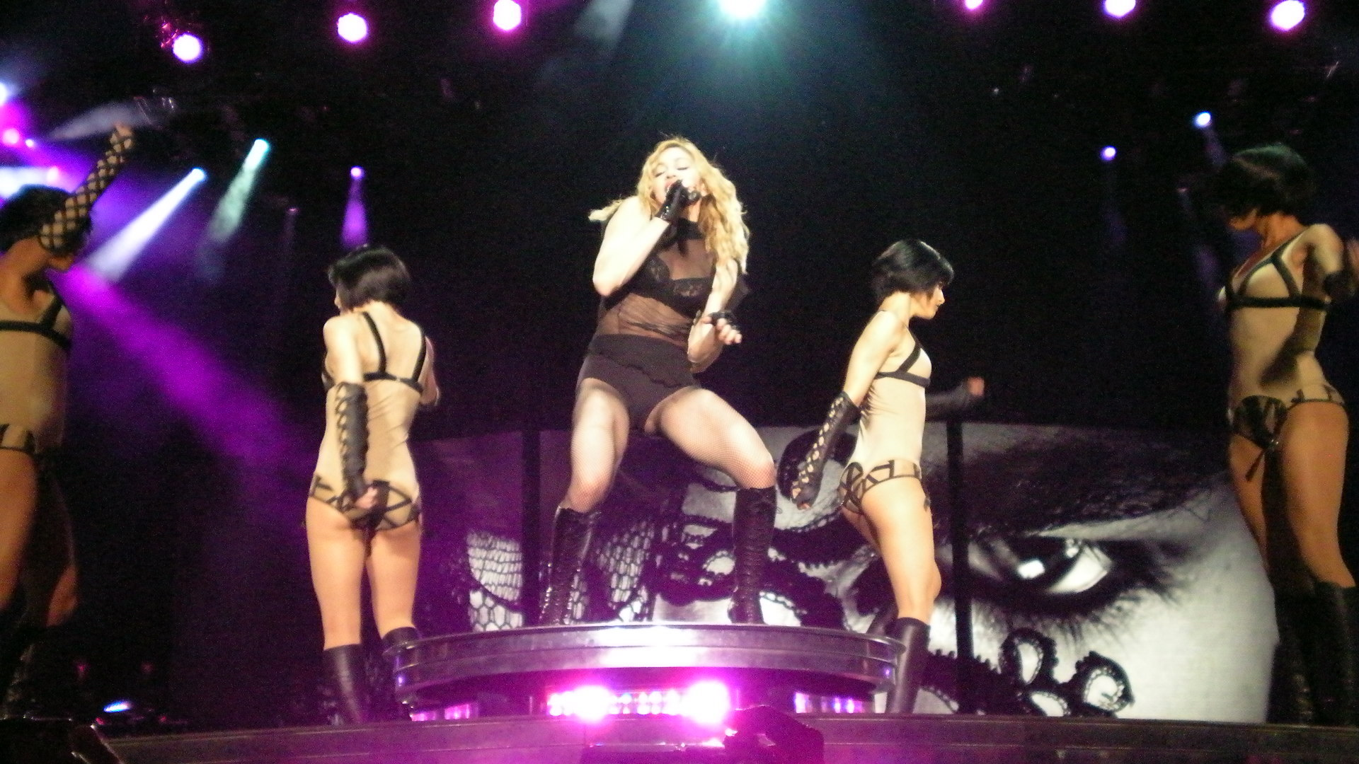 Madonna performing Vogue in Sofia